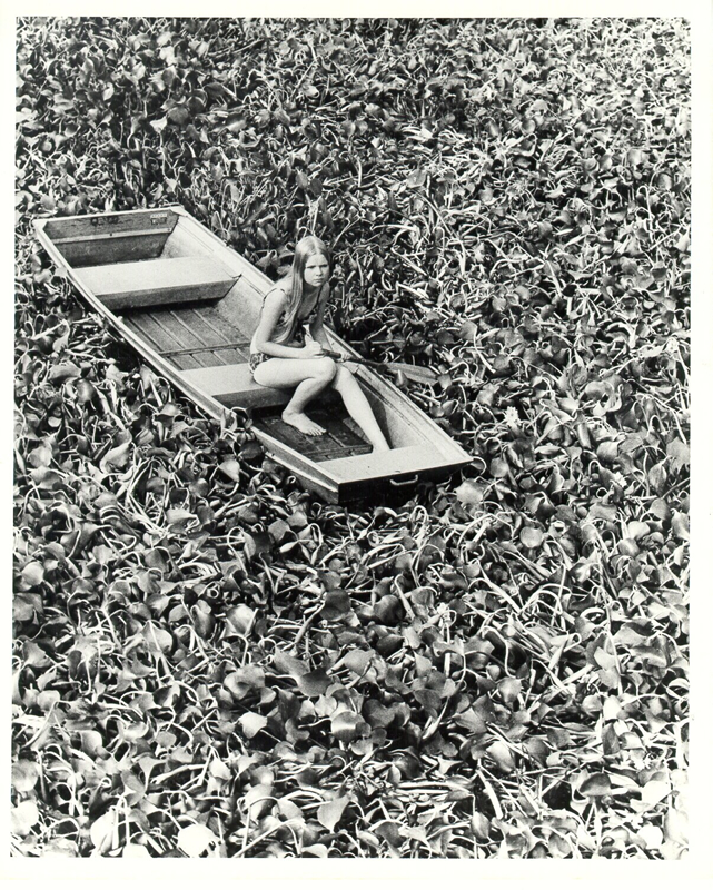 Girl in boat "stranded in hyacinth patch", 1972